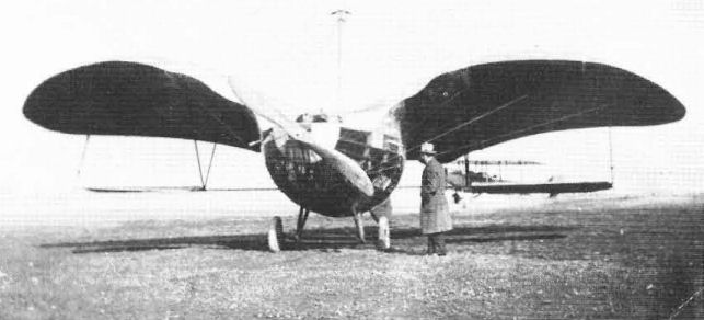 Goupil Duck (1917) on wheel undercarriage as built by Curtiss